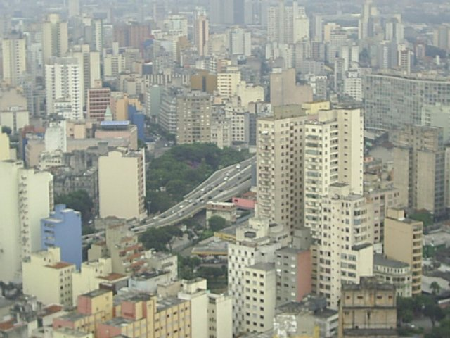 Part of the center of São Paulo City.